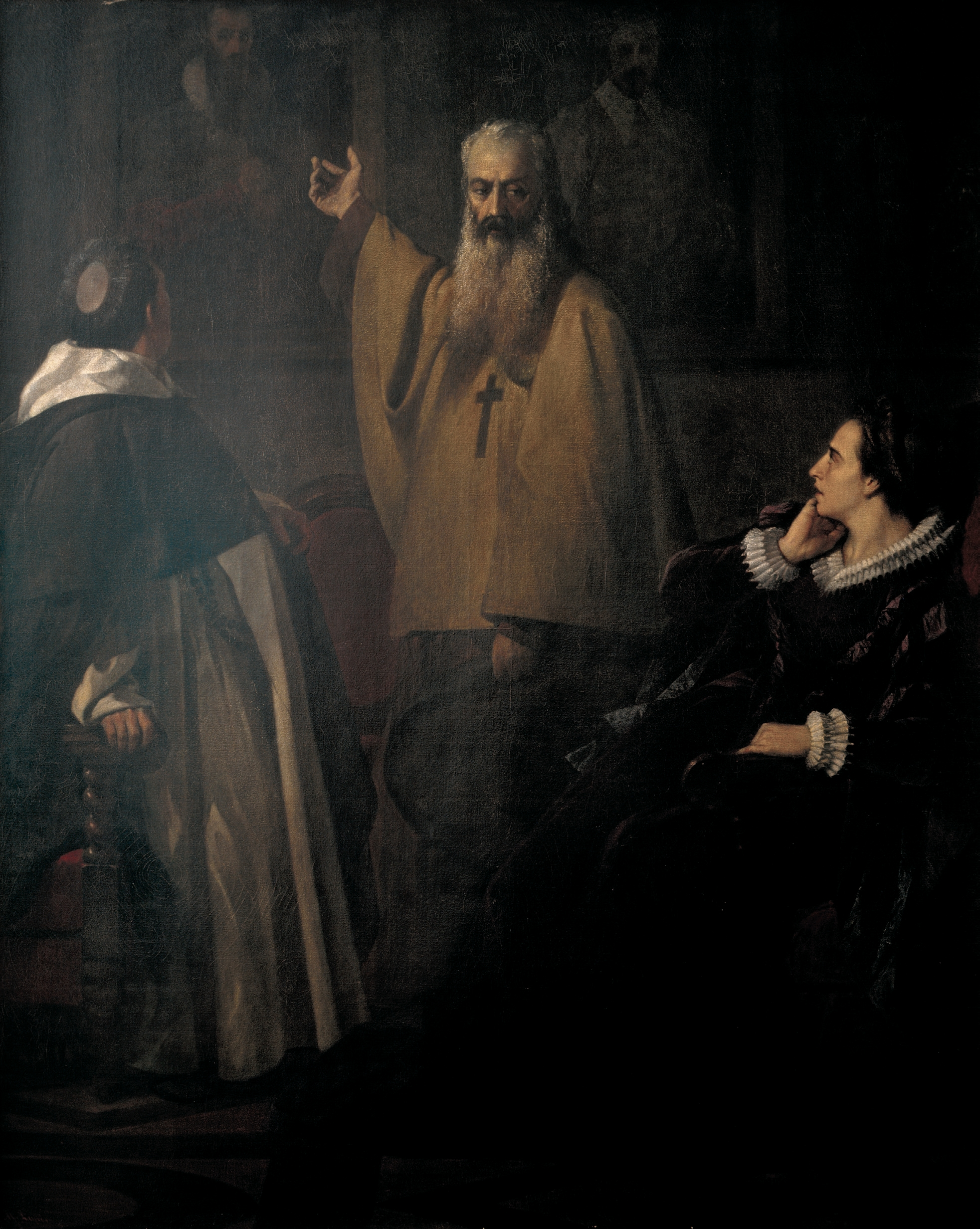 A scene from the play "Frei Luís de Sousa" (act II, scene 14), by Almeida Garrett.